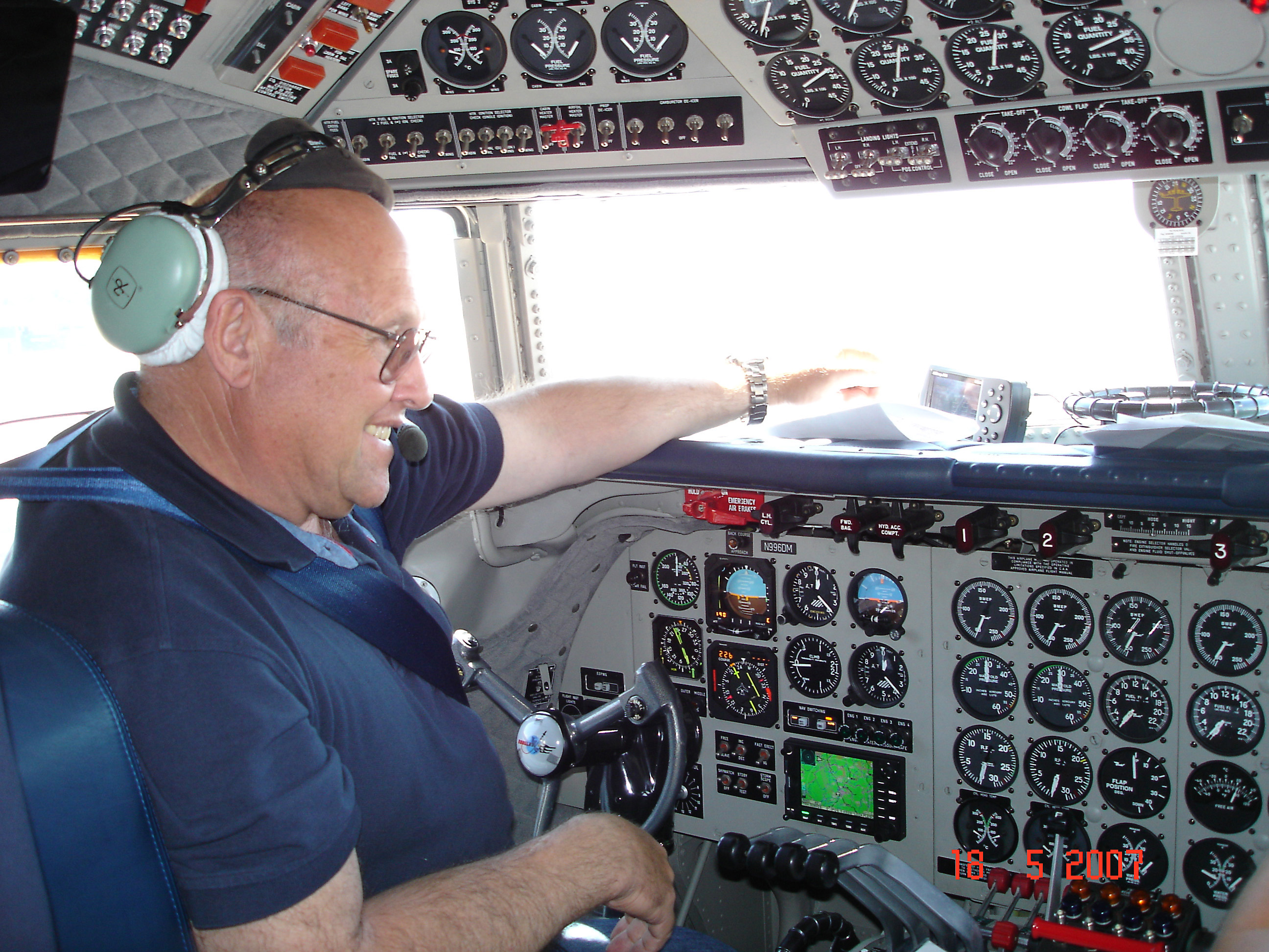 Cockpit on DC6B